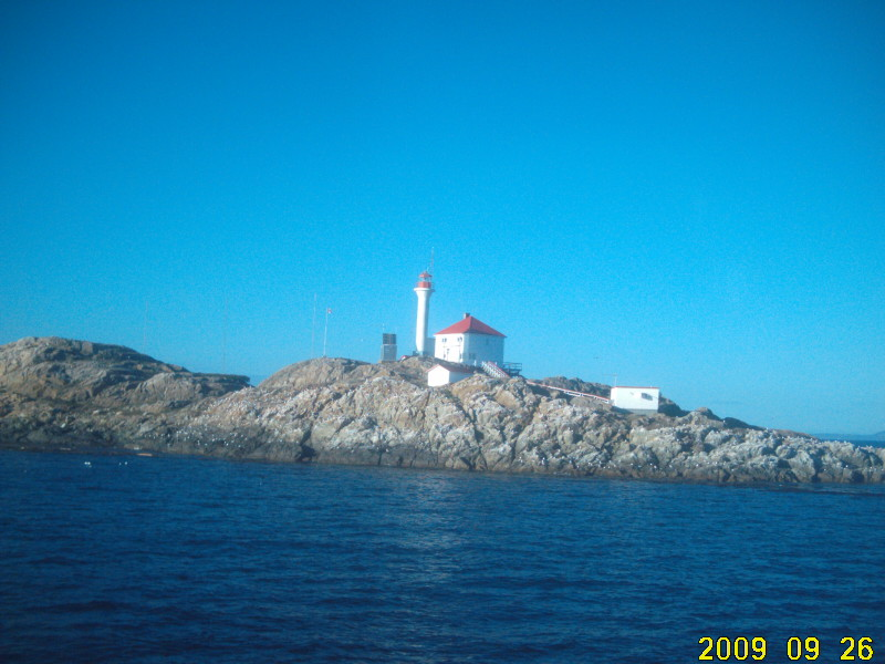 Trial Island Lighthouse Trial Island (near Victoria), British Columbia, Canada Photo taken from on board the Victoria Star 2 Ferry, 26-SEP-2009